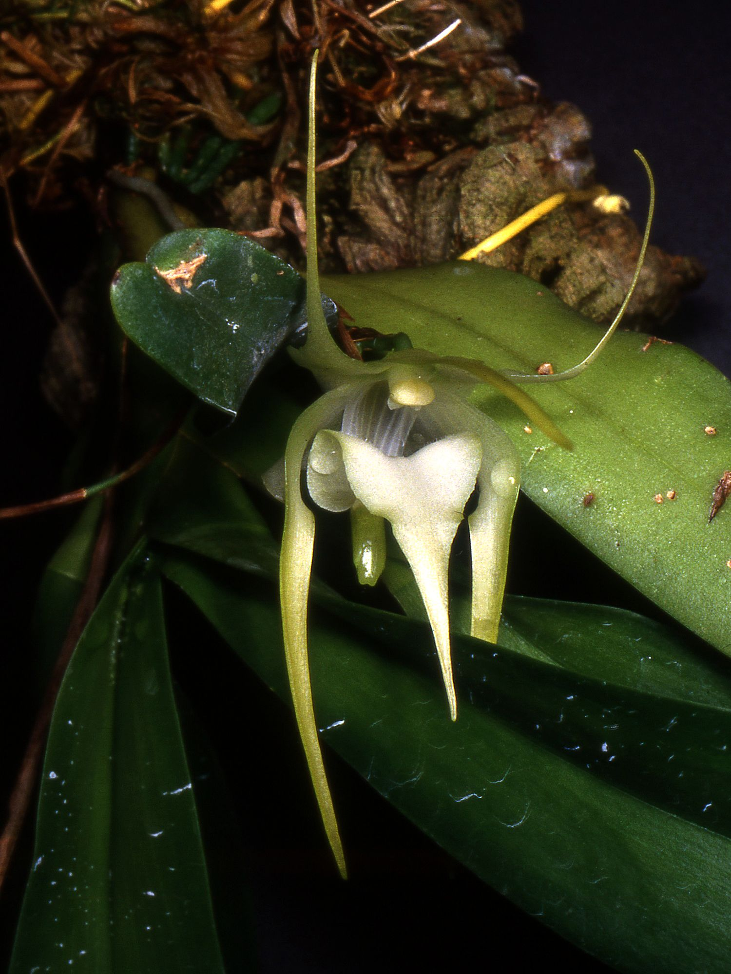 Aeranthes grandiflora